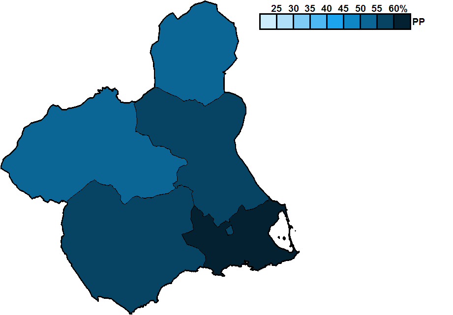 District results for the 2011 Murcian regional election.